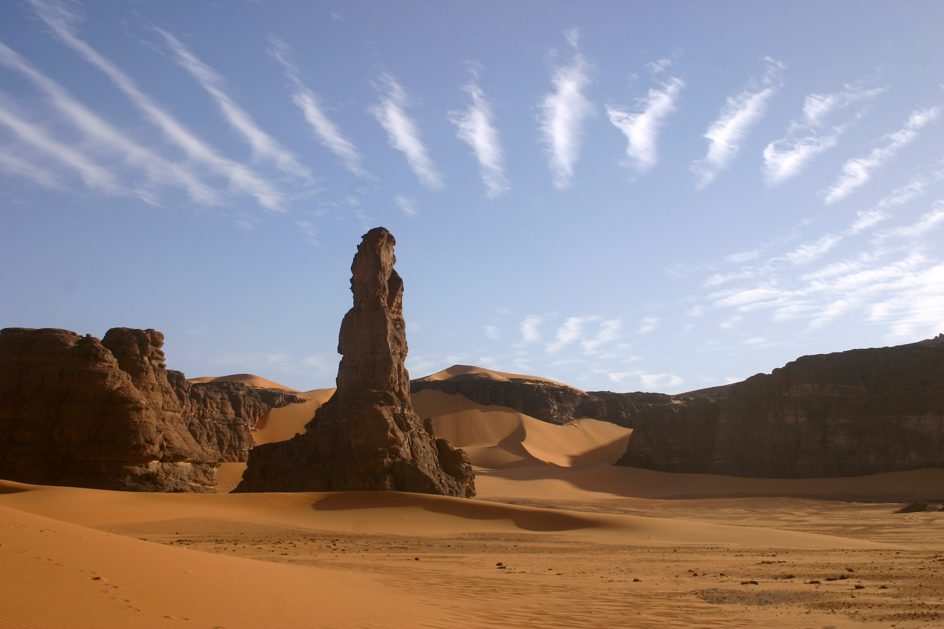 The Moul n'ga Cirque in the Tadrart region, Southeast Algeria, with wave clouds above. The wave cloud formation is caused by sinusoidial oscillations in an air mass moving over a large obstacle. Condensation occurs as the wave peaks enter a colder environment at higher altitude